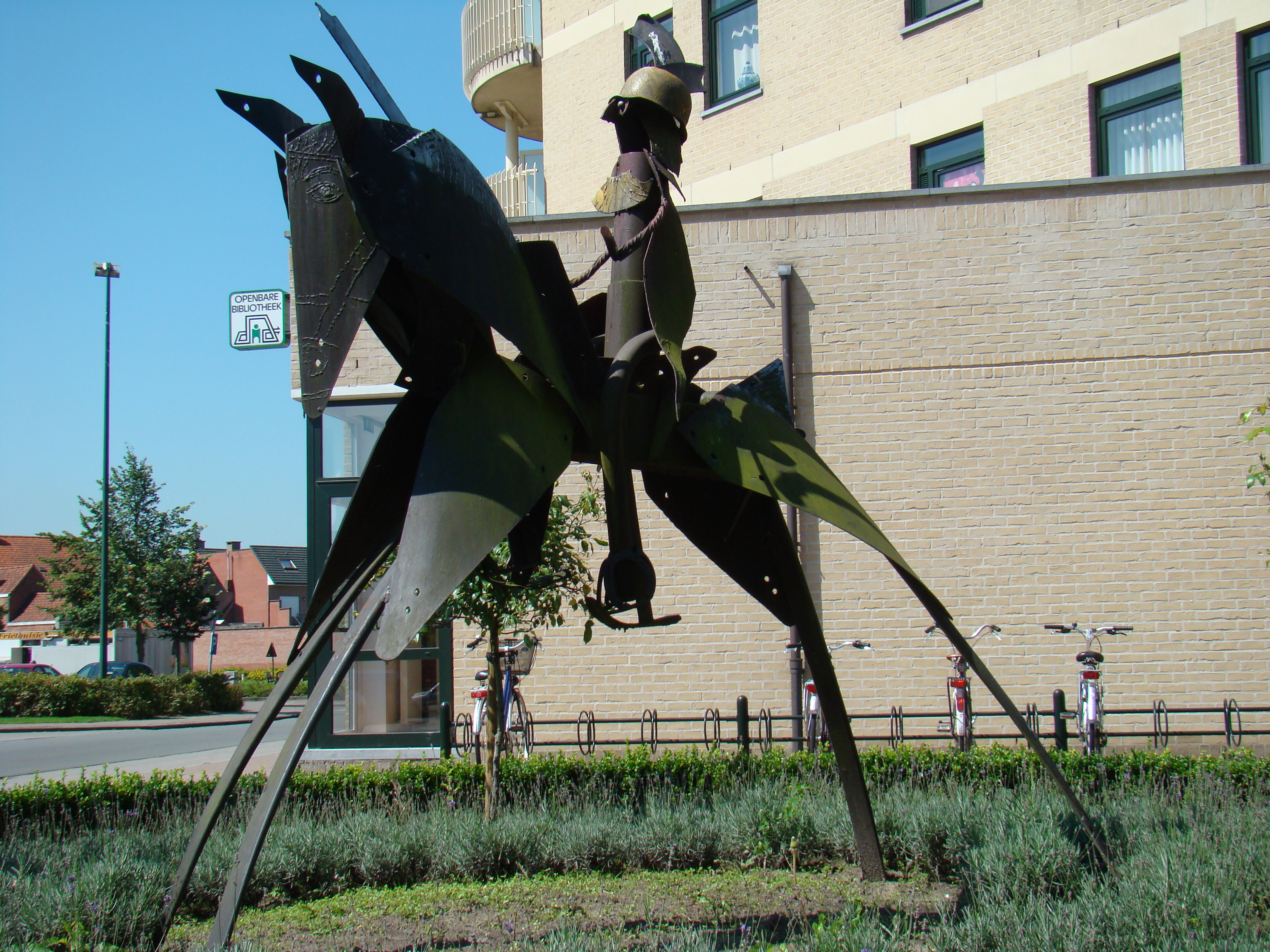 Oostrozebeke (West Flanders, Belgium)